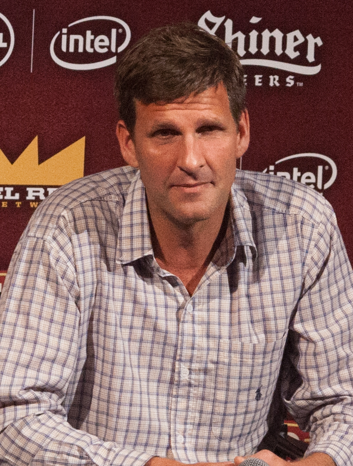 Men and Chicken Q&A with Writer-Director Anders Thomas Jensen Fantastic Fest 2015-0312.jpg